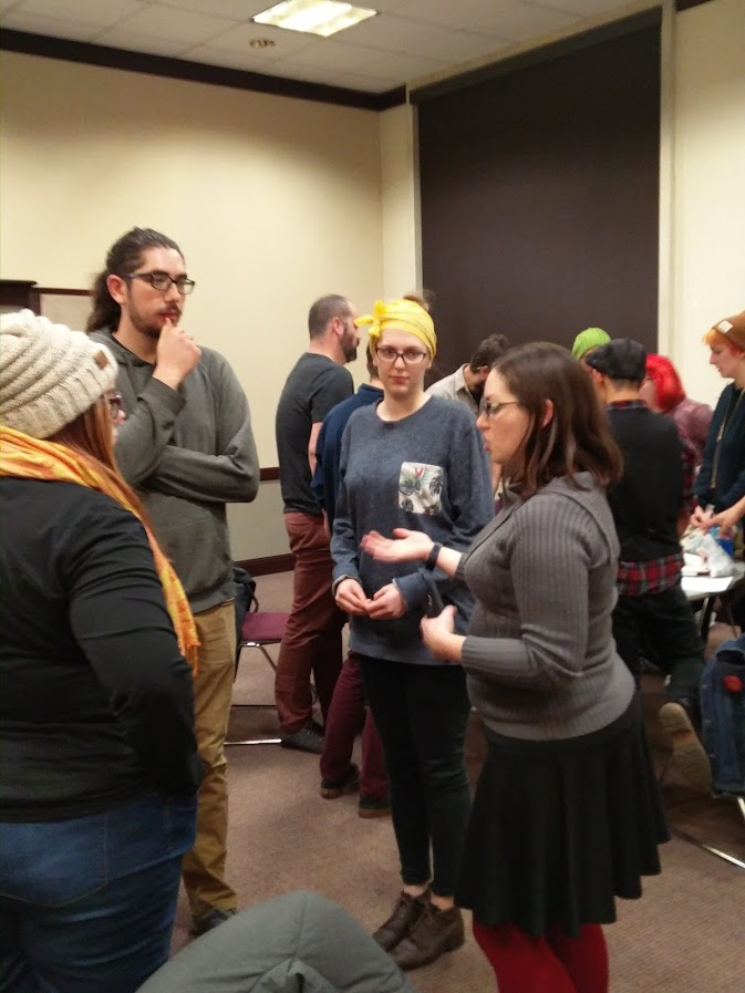 Young activists converse at a grassroots Organizing Committee convened at Boise State University in December 2017, one of scores of such local inaugural DSA meetings held that year.